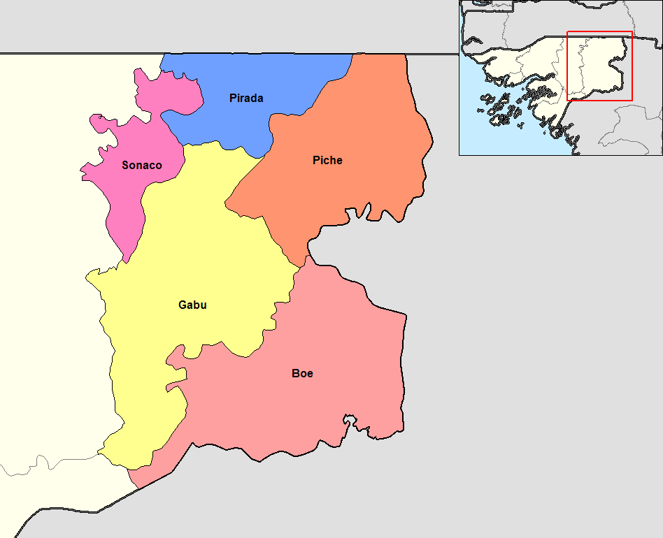 Map of the sectors of Gabu region in Guinea-Bissau. Created by Rarelibra 14:33, 14 September 2006 (UTC) for public domain use, using MapInfo Professional v8.5 and various mapping resources.